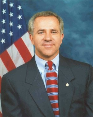 Steve Buyer, member of the United States House of Representatives.